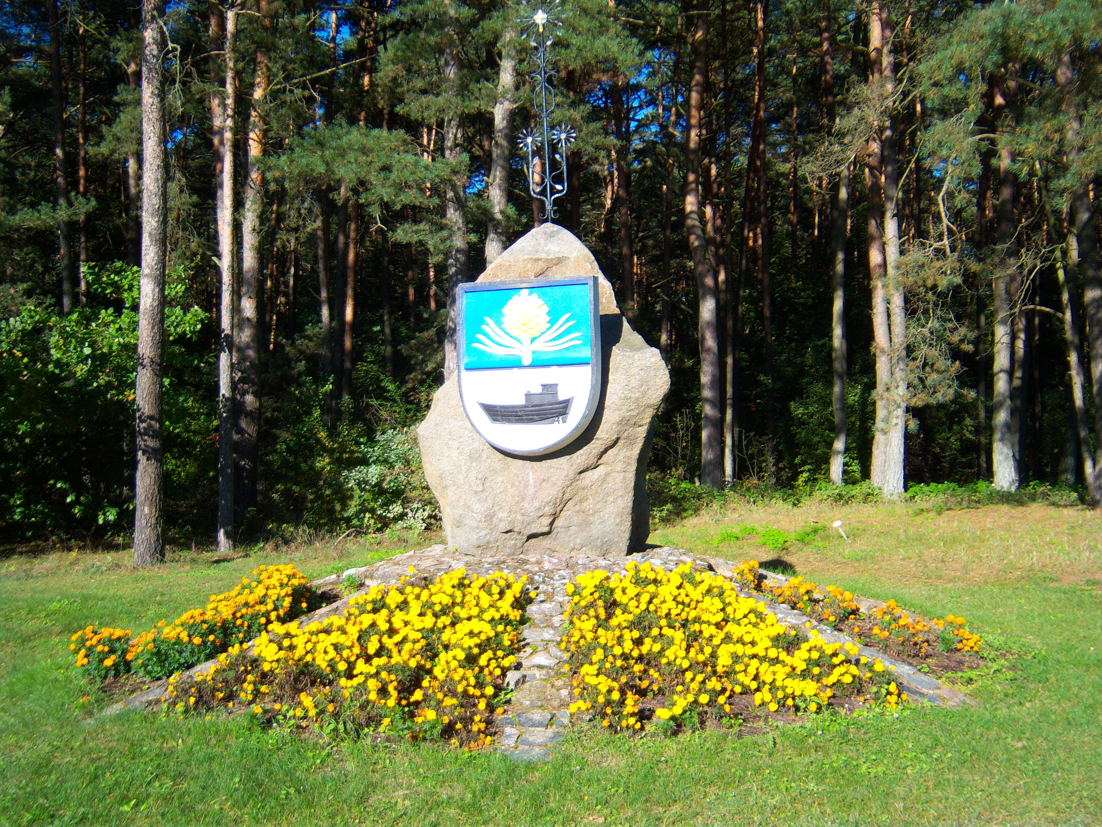 Kriūkai, stone with coat of arms, Šakiai District, Lithuania